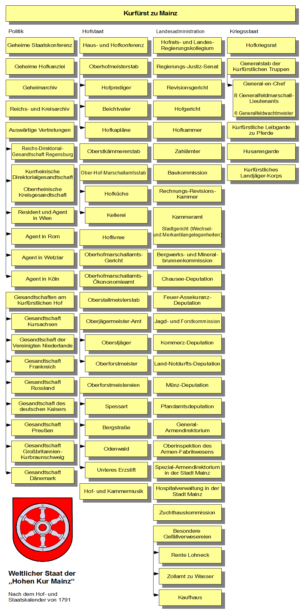 Organizational chart of the Electorate of Mainz, 1791